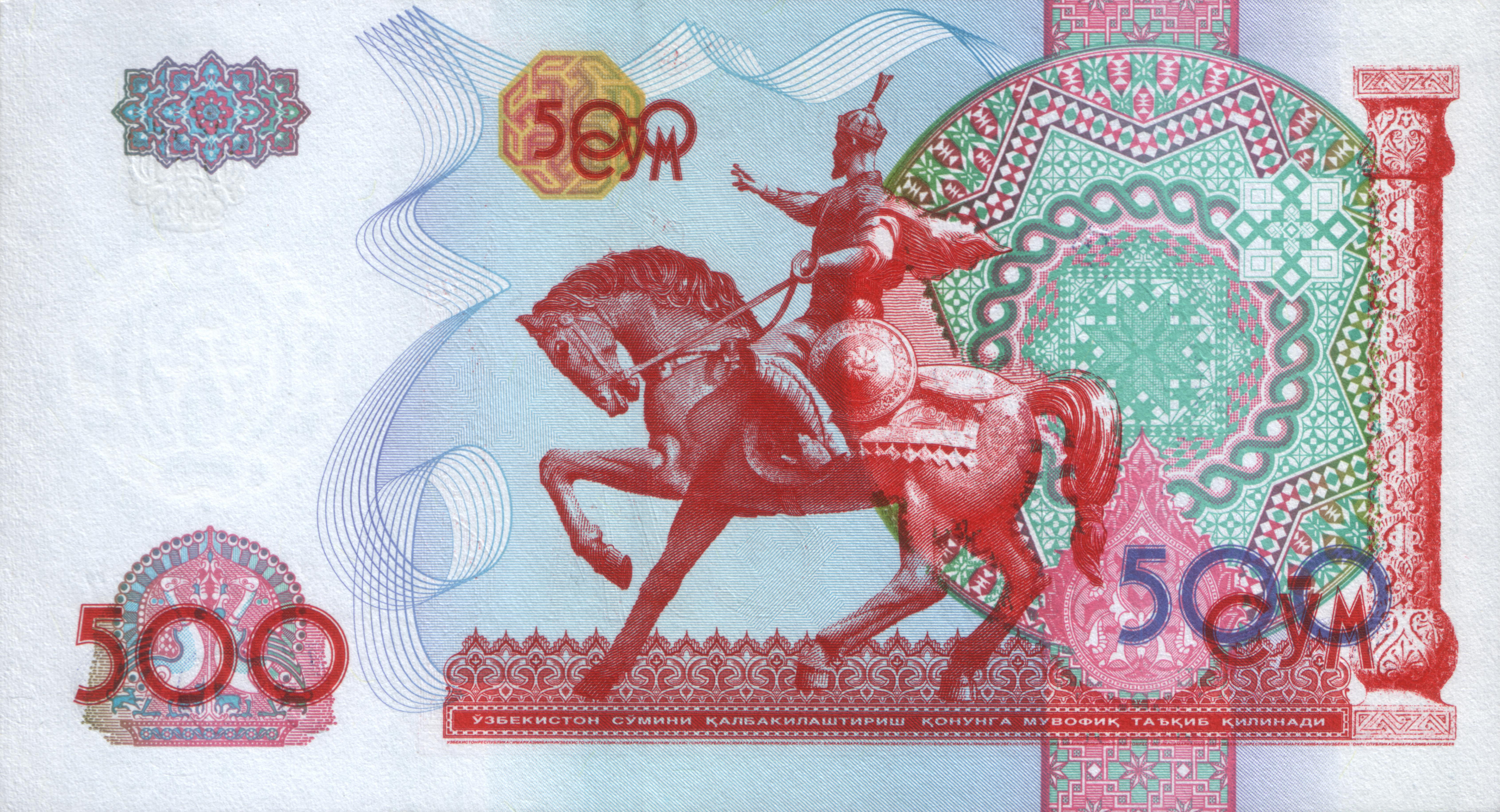 500 sum of Uzbekistan (1999)